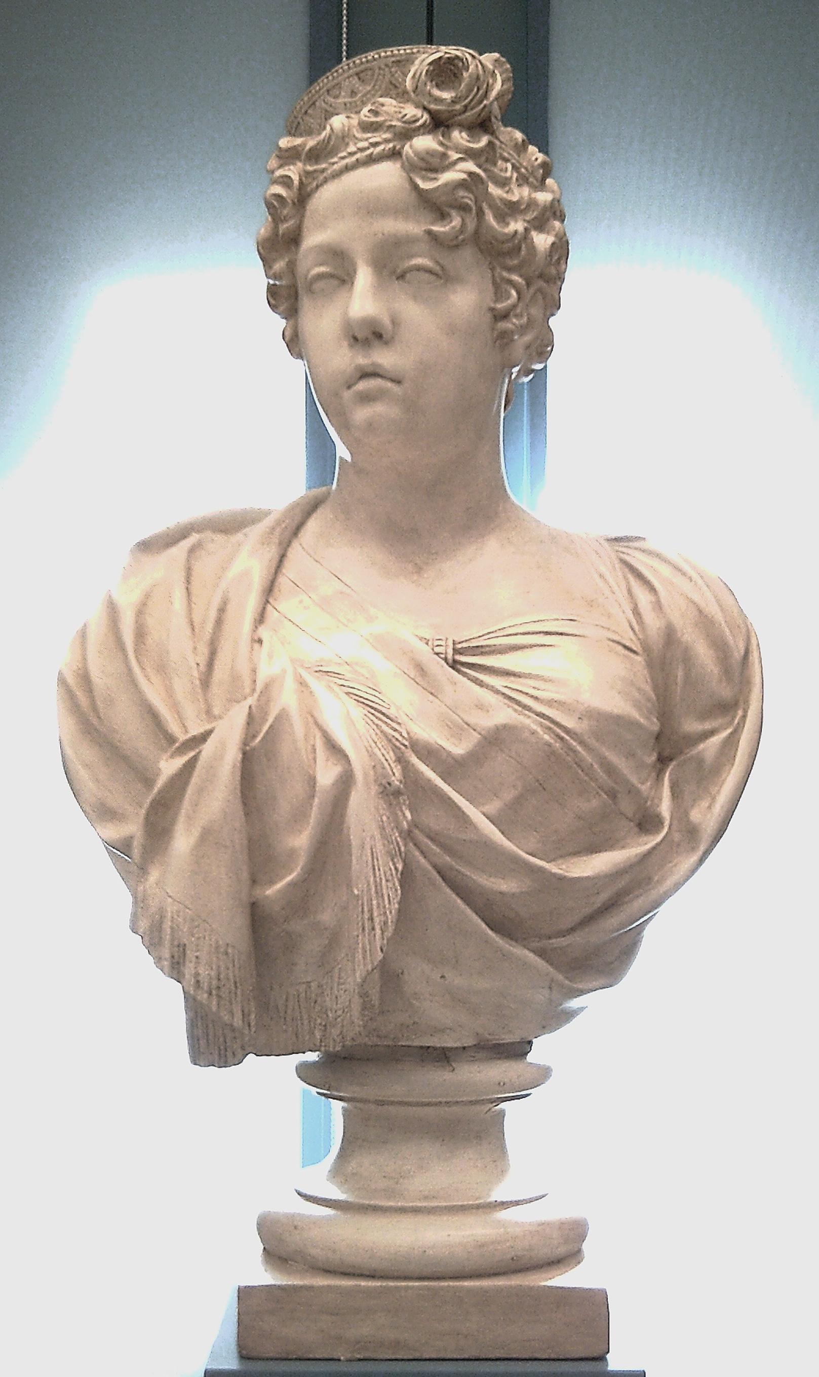 Depicted person: Maria Isabel of Portugal